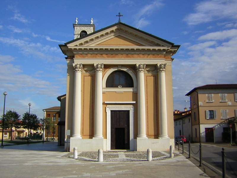 Chiesa San Filippo Neri di Ciliverghe